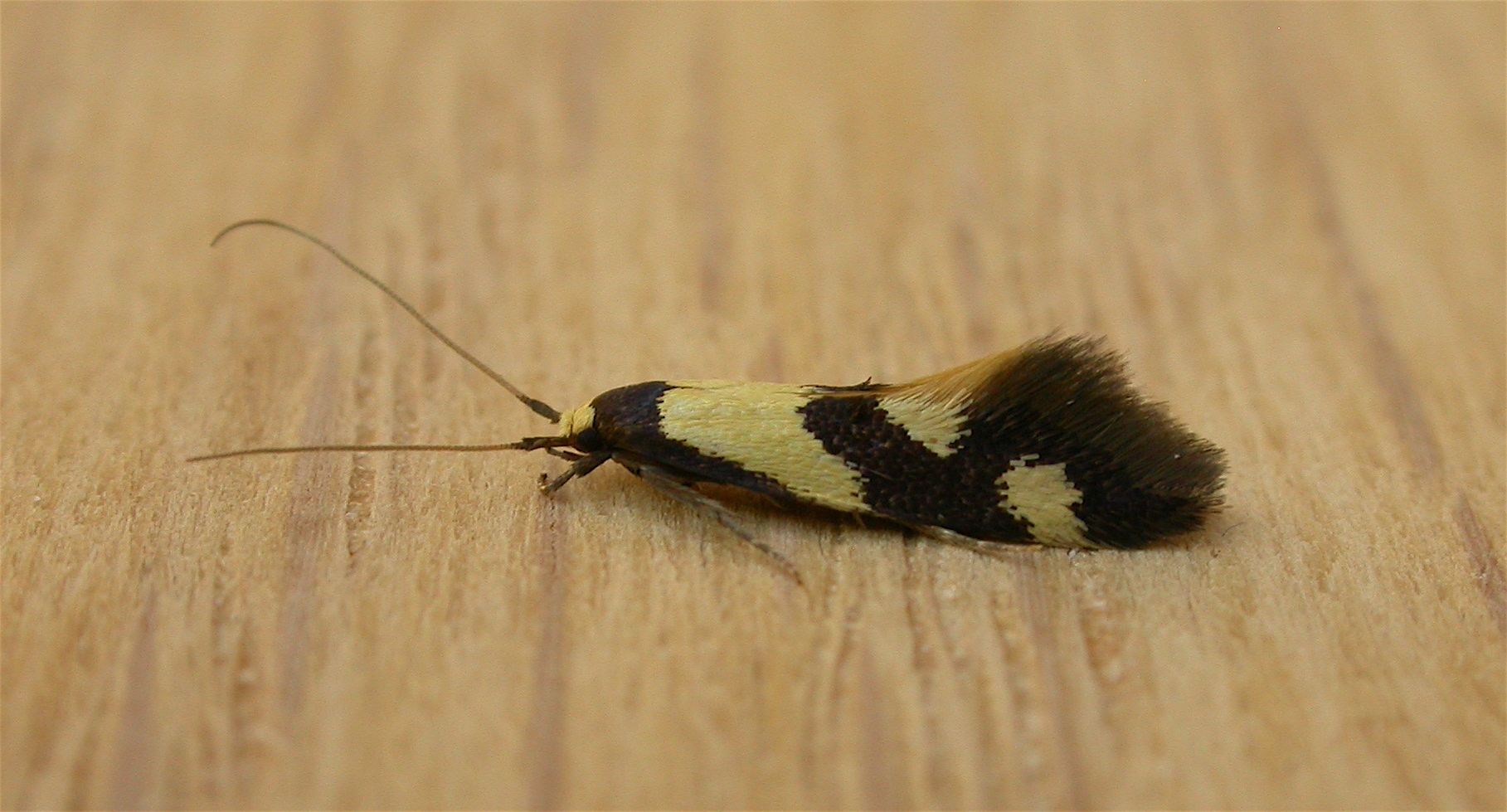 Opogona comptella (Walker, 1864), Aranda, ACT, 15 November 2008